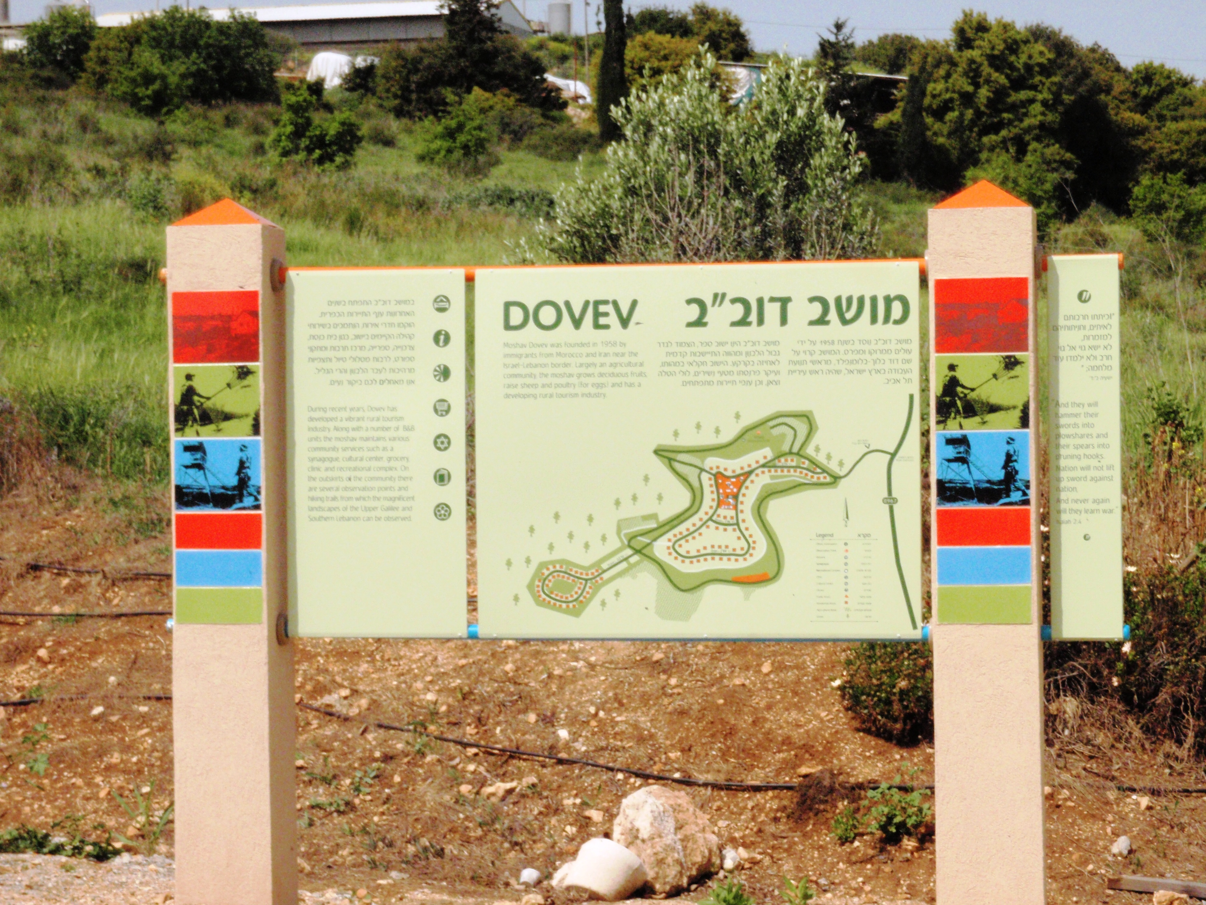 The new entrance sign to Moshav Dovev.